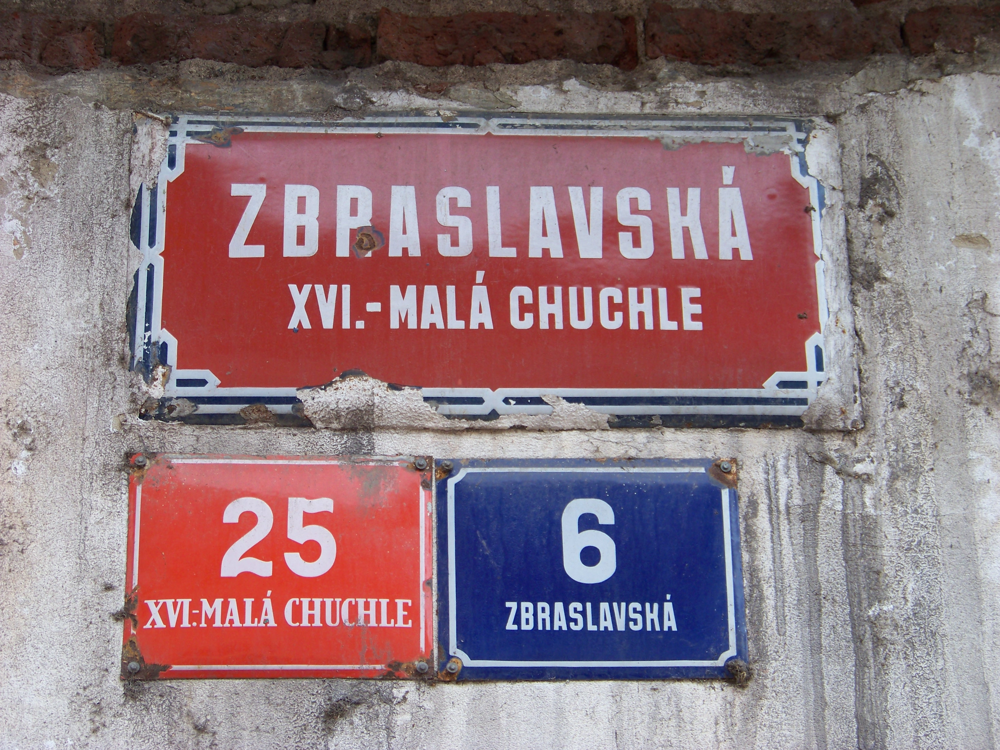 Prague-Malá Chuchle, the Czech Republic. Zbraslavská street, a street sign and house numbers.